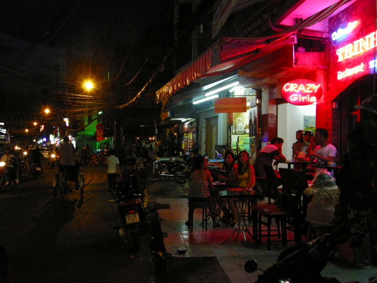 Bui Vien St. ブイヴィエン通り